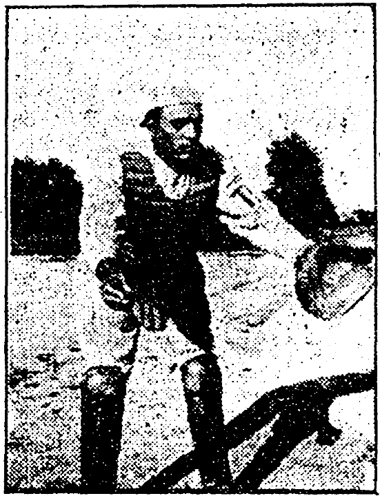 Josh R. Devoe was a catcher and played for several years before the founding of the first Negro National League. He played for the Cleveland Tate Stars in 1920.